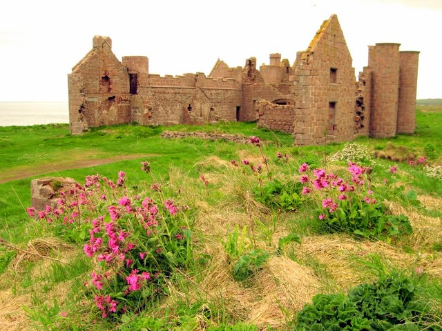 Cliff top flowers at Slains Castle. Red campions on the cliff tops near the ruins of "new" Slains Castle.